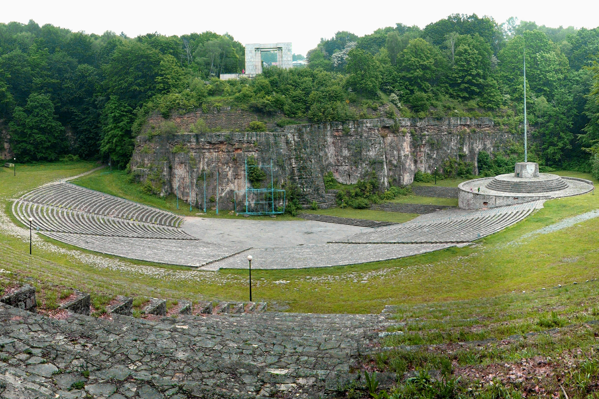 (Note: not an amphitheatre!)